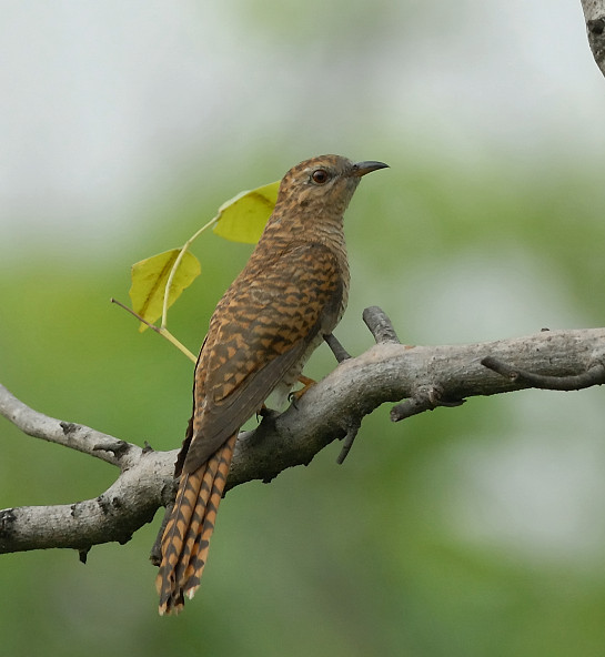 Female, taken at Suan Rotfai, Bangkok.